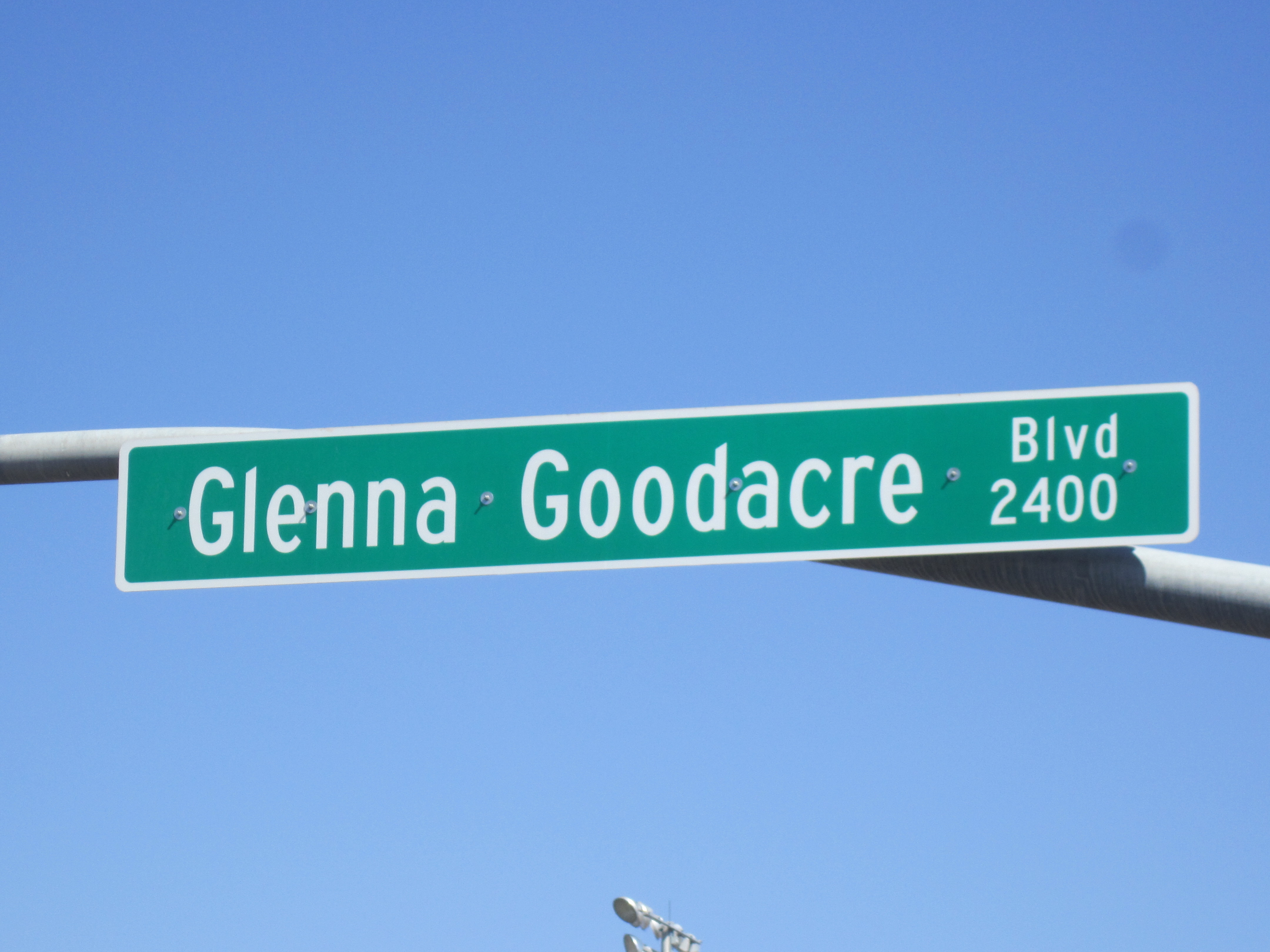 I took photo in Lubbock, TX, with Canon camera.